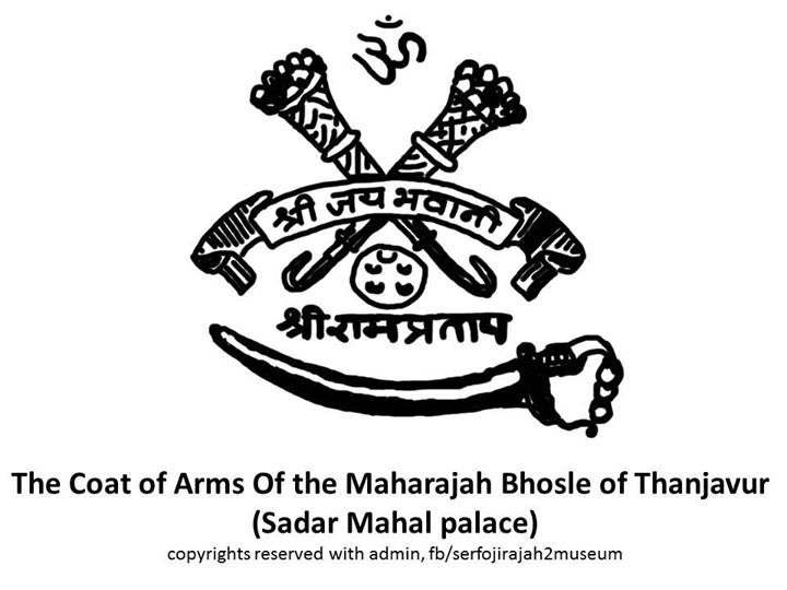 Tanjavar Rajmudra- राजचिन्ह श्रेय: श्रीमंत छत्रपती श्री प्रतापसिंहराजे भोसले तंजावर (विद्यमान वंशज)